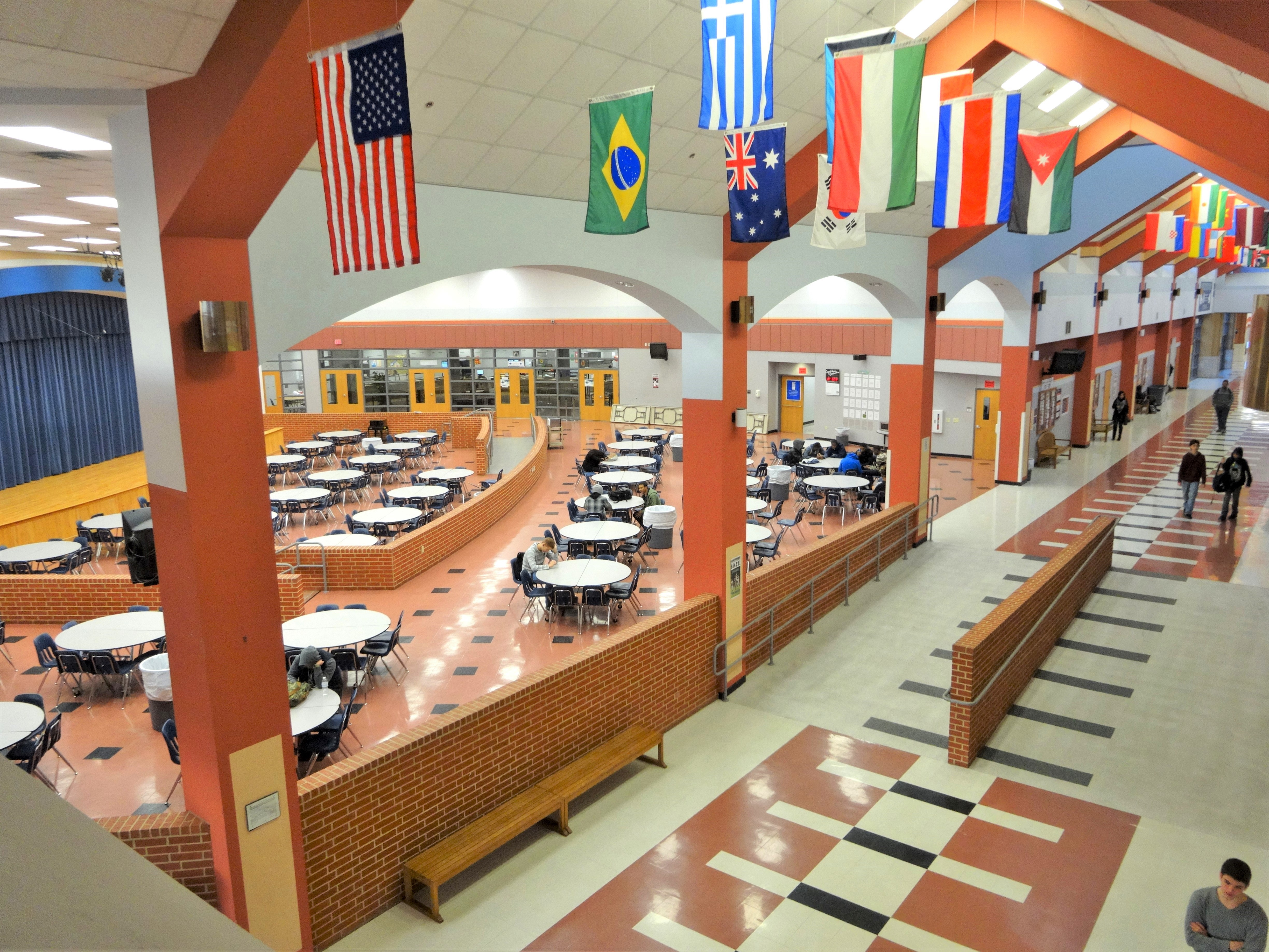 View of the cafeteria and main hallway from above.